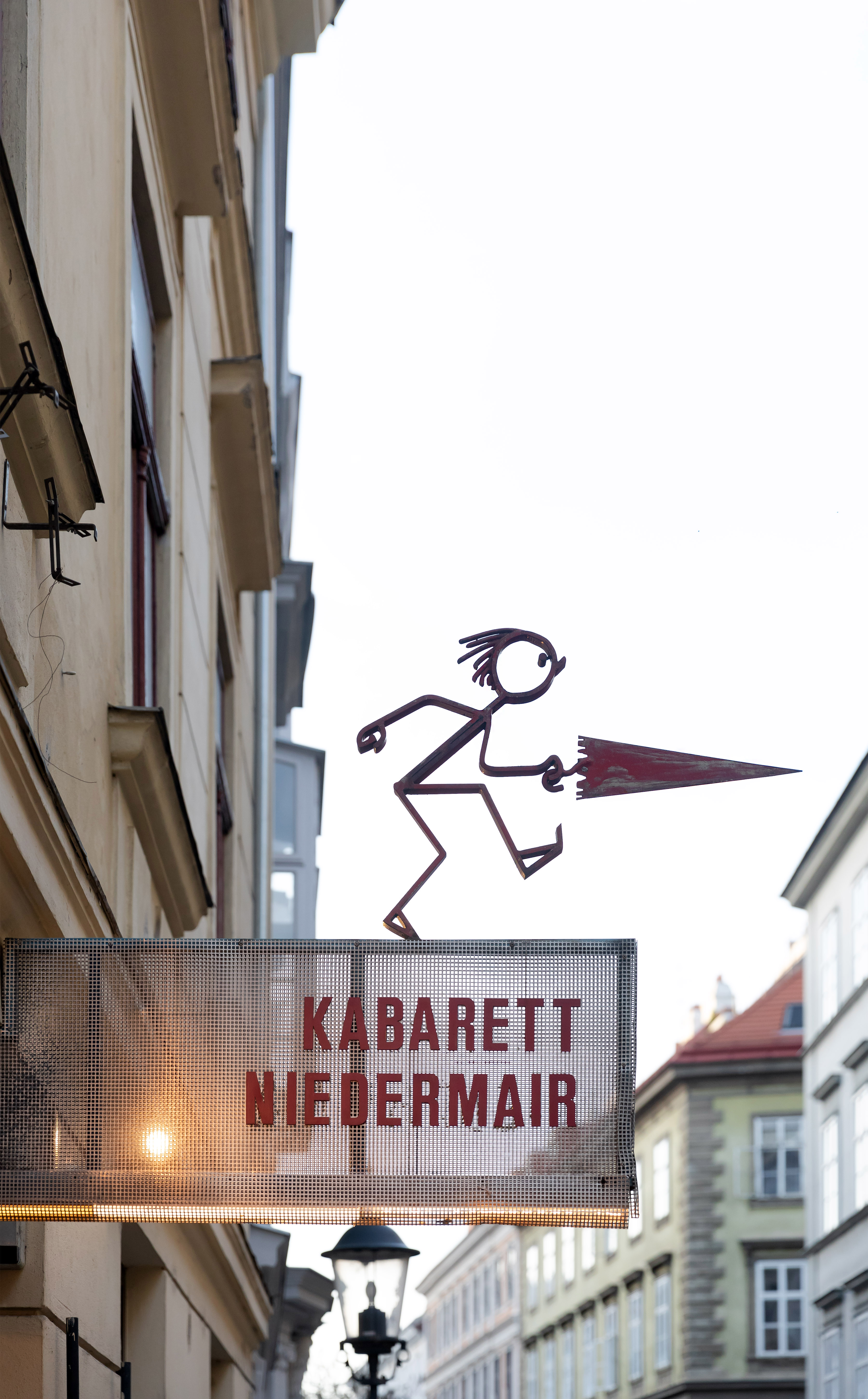 Kabarett Niedermair, Vienna, Austria.